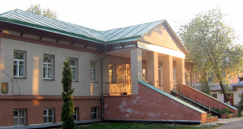 Gustynskiy monastery hotel